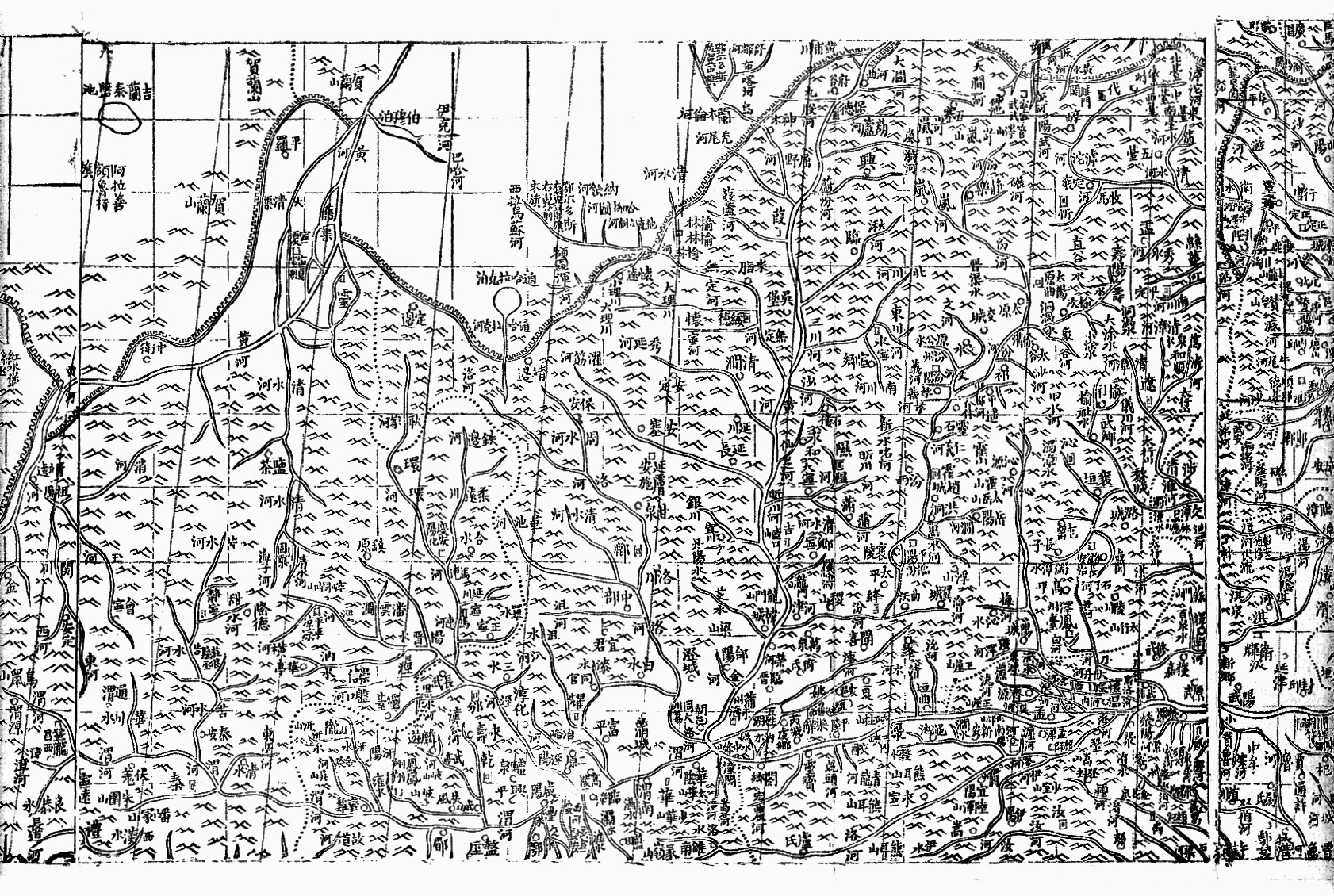 Huang-ch'ao i-t'ung yu-ti ch'uan-t'u. Map of the Chinese empire by the celebrated geographer Li Chao-lo, first published 1832. This is the 1842 reprint. Asian Collection Keywords: oriental collections; oriental collections: chinese,; walravens no. 98